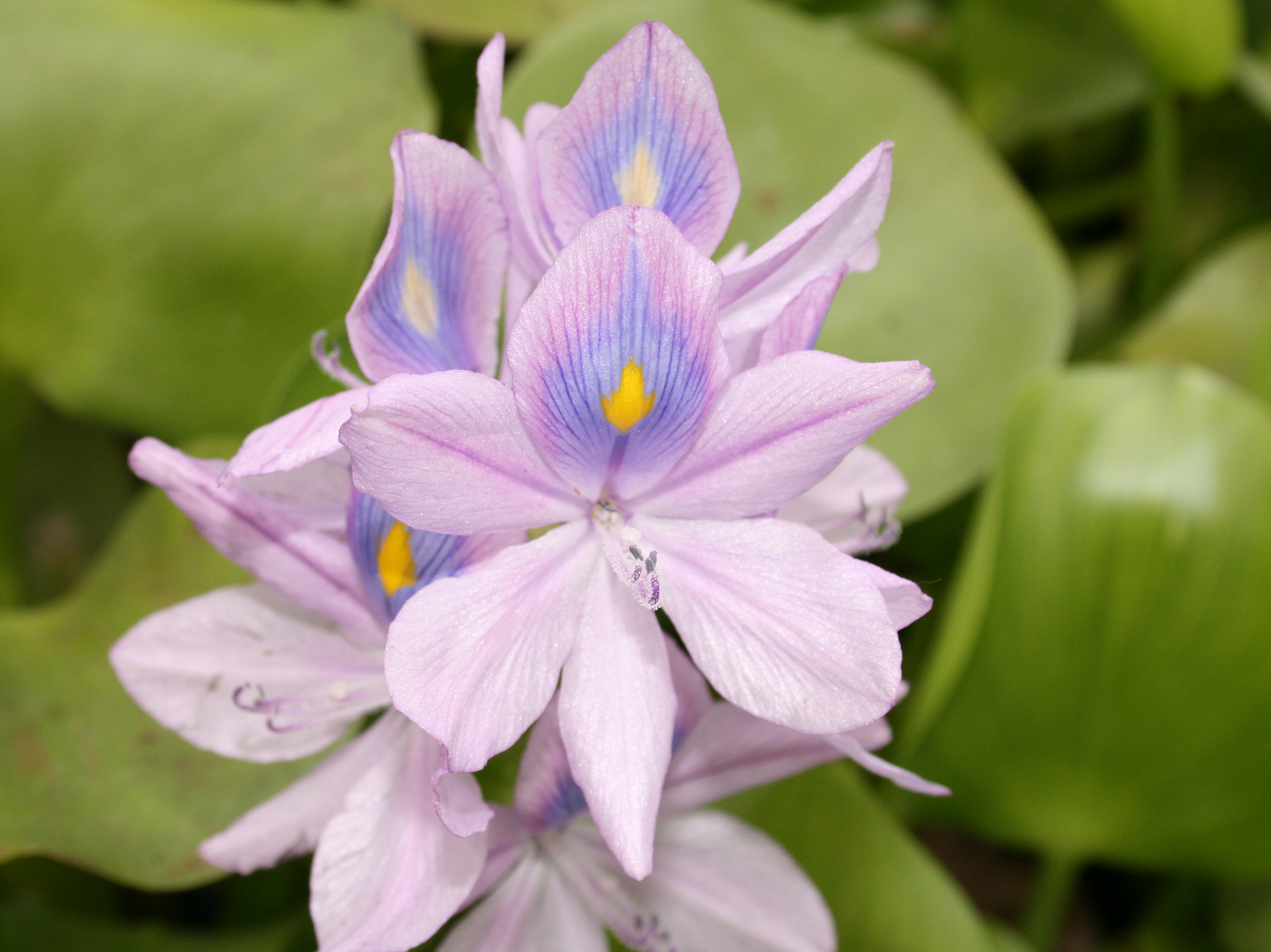 Flower of the common water hyacinth, Eichhornia crassipes. Photographed in Dar es Salaam, Tanzania.